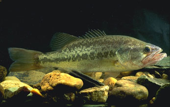 Largemouth Bass From public domain